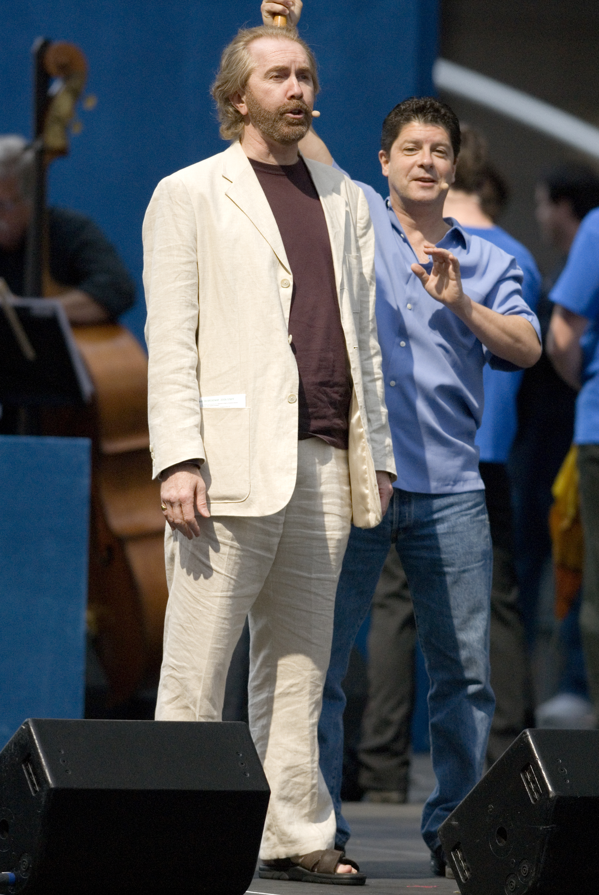 Harry Groener, Michael McGrath and the cast of Spamalot perform "Always Look On the Bright Side of Life" at Broadway on Broadway, September 10th 2006.